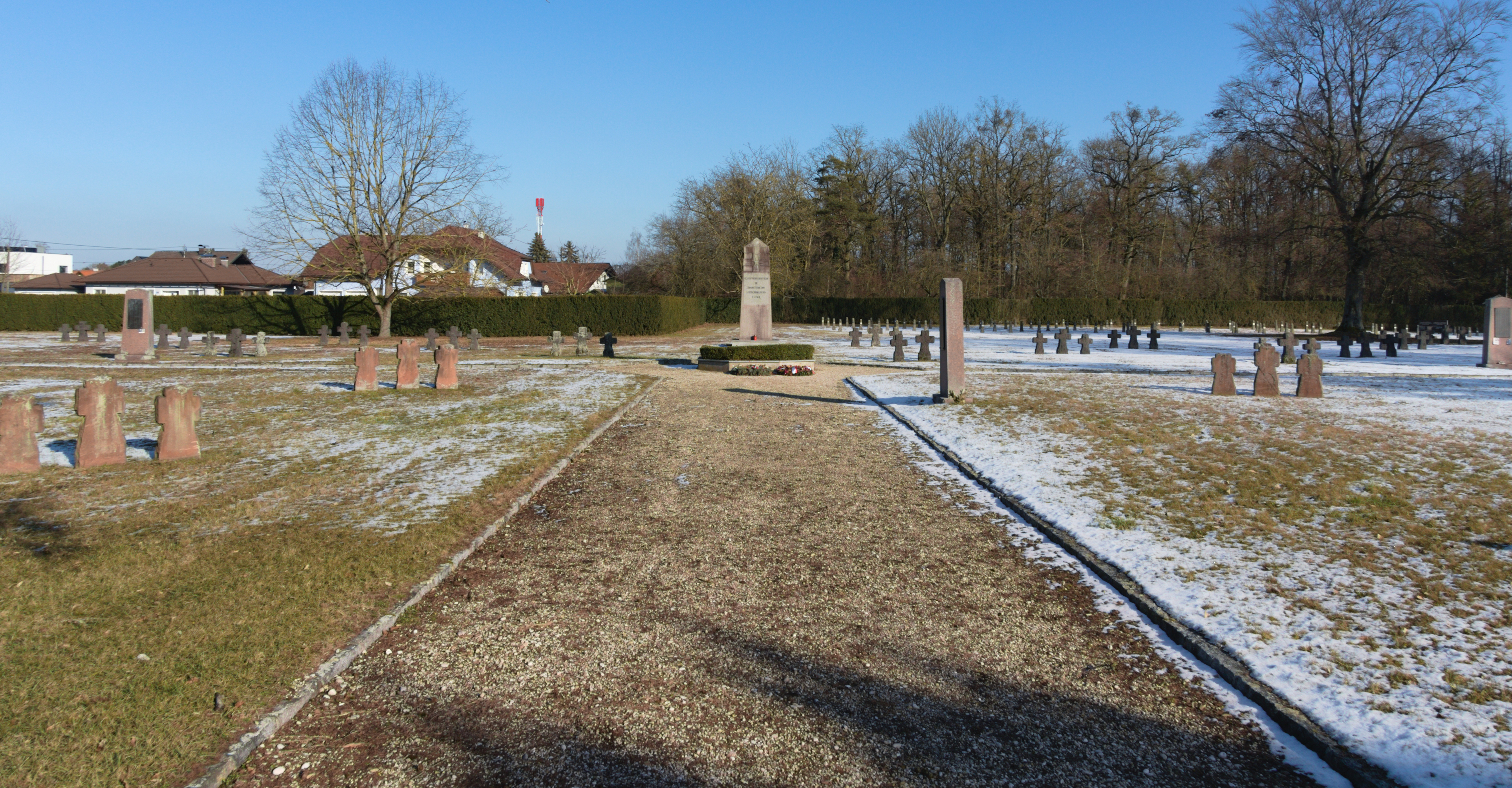 The italian section of the war cemetry for soldiers of the first world war in Marchtrenk, Upper Austria, Austria